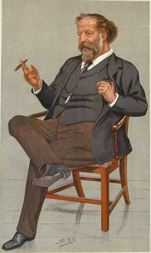 Caricature of Joseph William Comyns Carr (1 March 1849 – 12 December 1916). Caption read "An Art Critic".